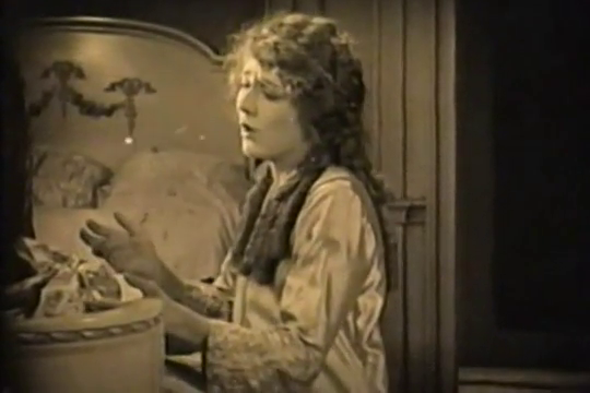 Mary Pickford in The Hoodlum (1919), a film by Sydney Franklin